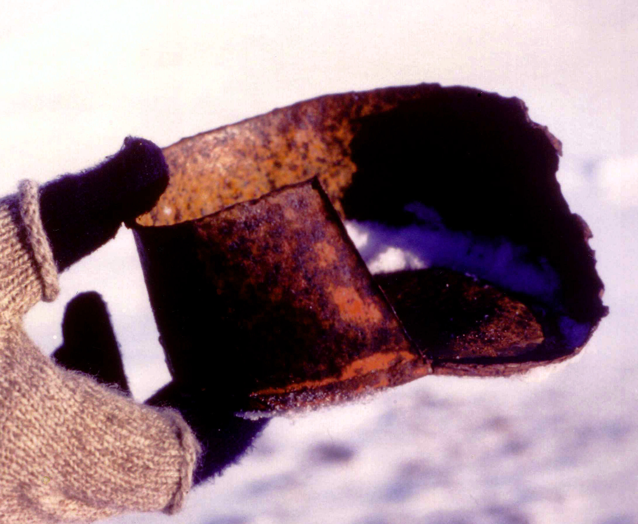 The officers (the only ones who had the privilege to eat food kept fresh from a new process - canning) were slowly dying when they left England from the lead soldering used to seal the cans. As bears were roaming the area, our pilot carried a rifle at all times.